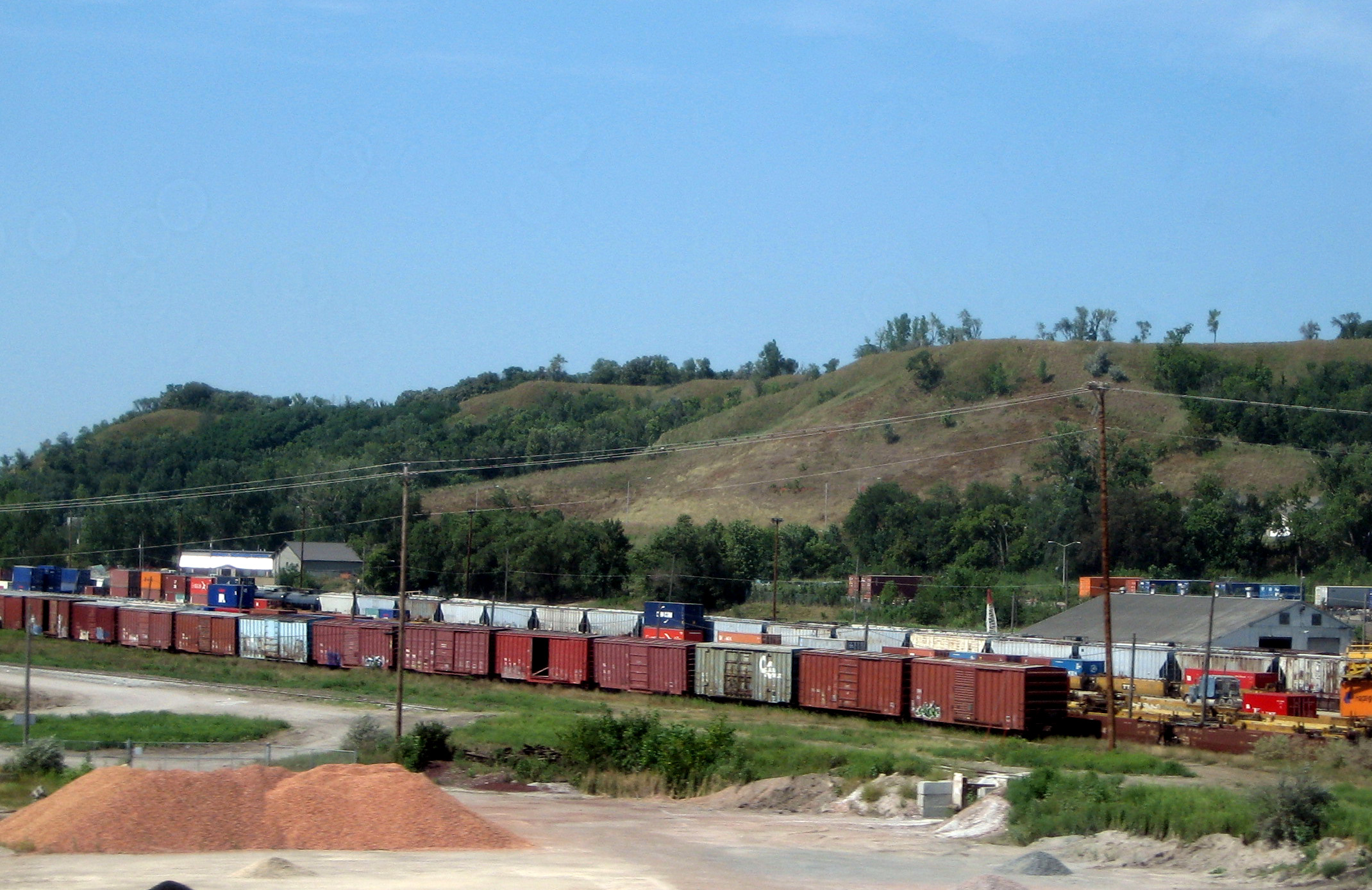 Loess hills bluffs, Council Bluffs, Iowa, north of I-80